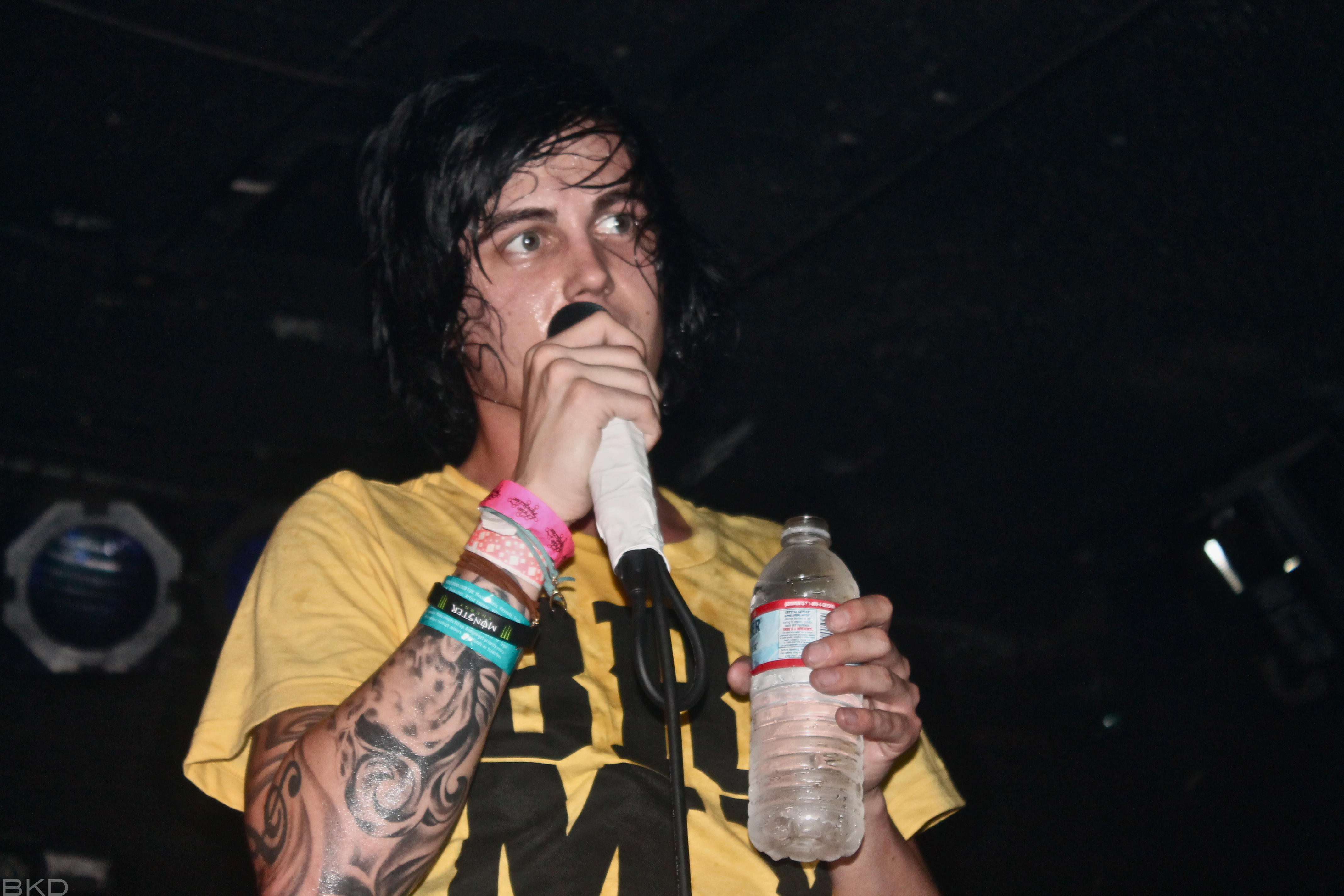 Sleeping With Sirens at Chain Reaction in Anaheim on 3/24/12.